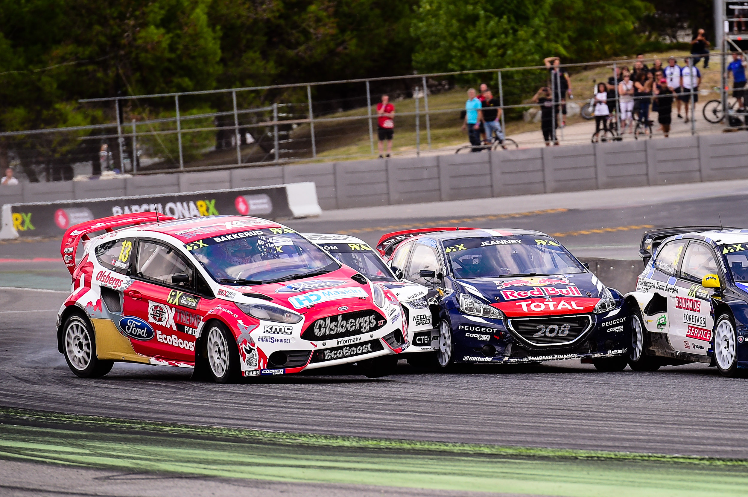 A tight battle between (from left to right): Andreas Bakkerud (Ford), Mattias Ekström (Audi), Davy Jeanny (Peugeot) and Johan Kristoffersson (VW) at Round 10 of the 2015 FIA World Rallycross Championship at Circuit de Catalunya, Spain.